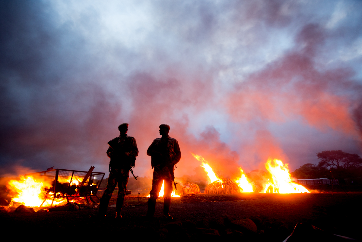 Two Kenya Wildlife Service Rangers are silhouetted by burning ivory and rhino horn in Nairobi National Park on 30th April 2016.